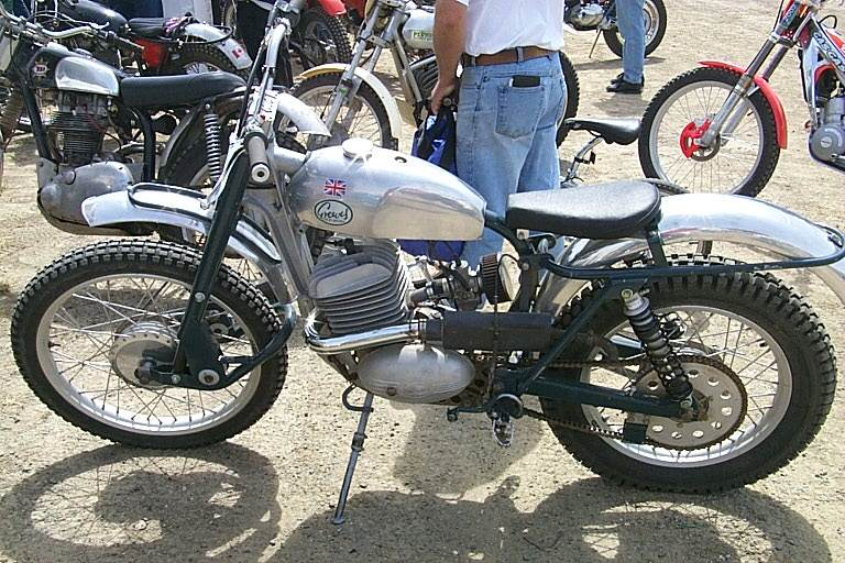 Greeves trial motorcycle near 1968?